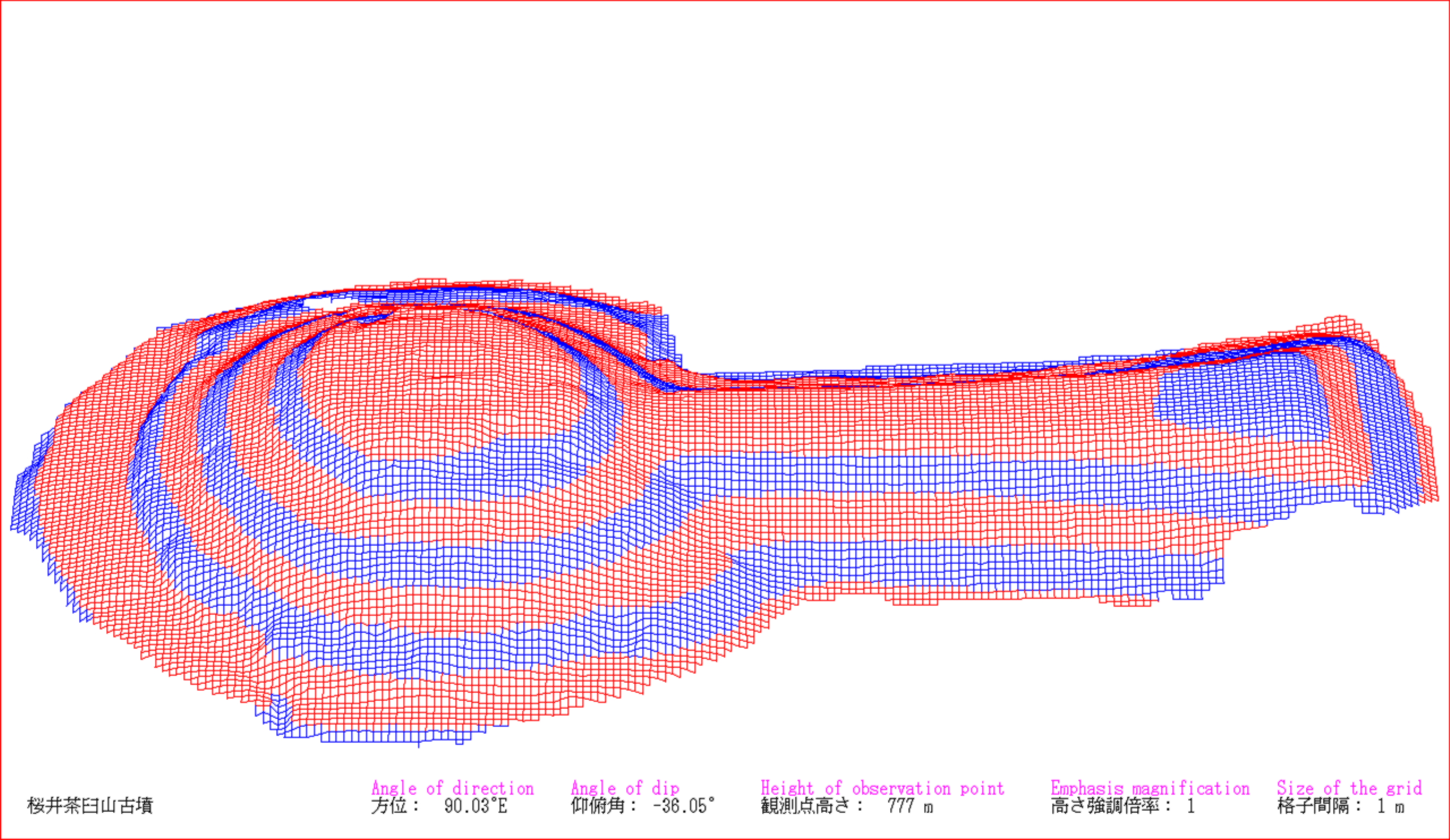 I who am a contributor drew the picture by a software which developed by myself. The survey map which I referred to depends on "『桜井茶臼山古墳の研究』大阪市立大学日本史研究室（2005年）". This is a drawing of present situation (not a drawing of a restored mound). The drawing depends on combination of wire frame and height eight phases classification. Perspective projection.